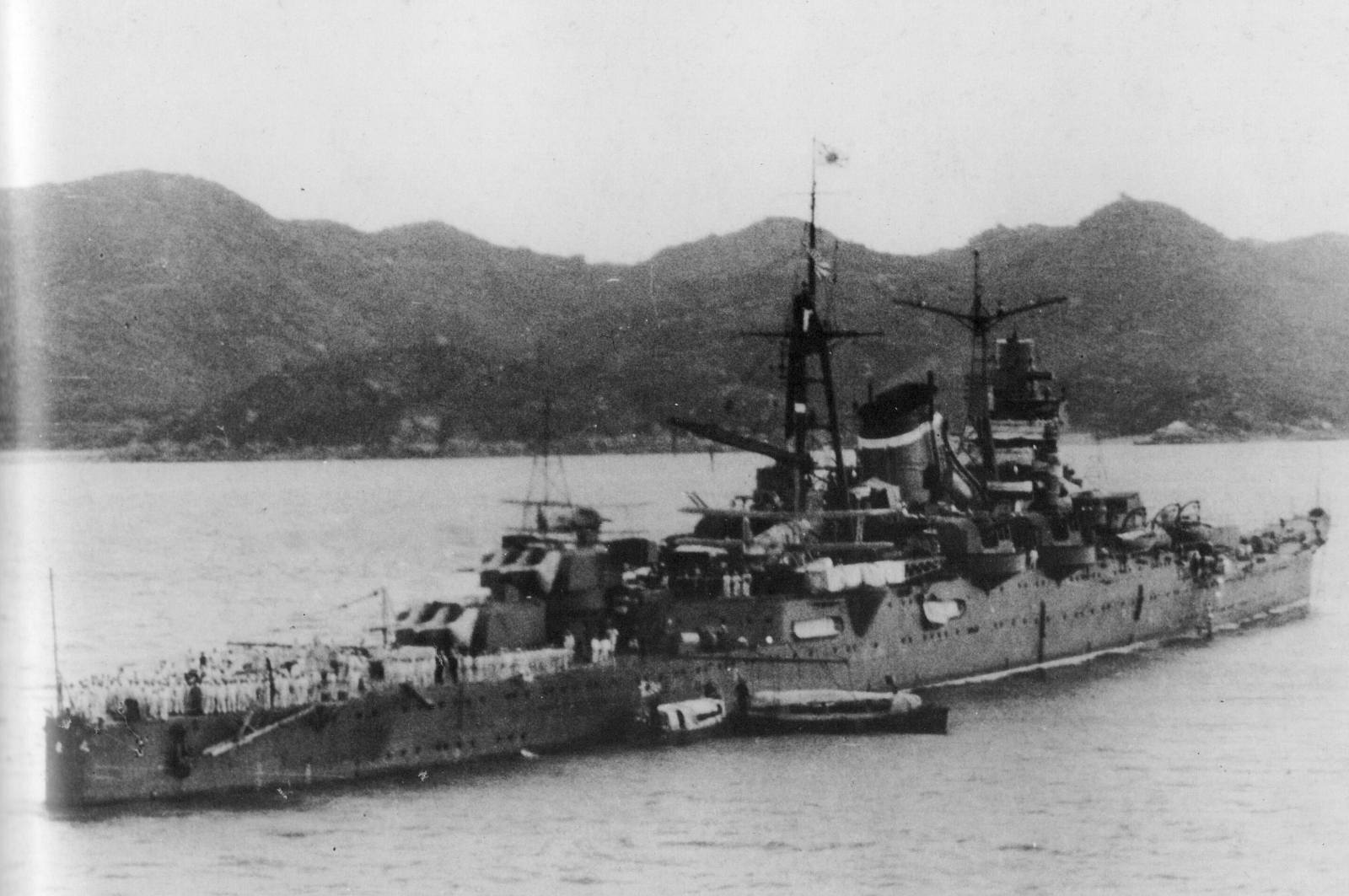 Cruiser Kumano, A503 FM30-50 booklet for identification of ships, published by the Division of Naval Inteligence of the Navy Department of the United States.